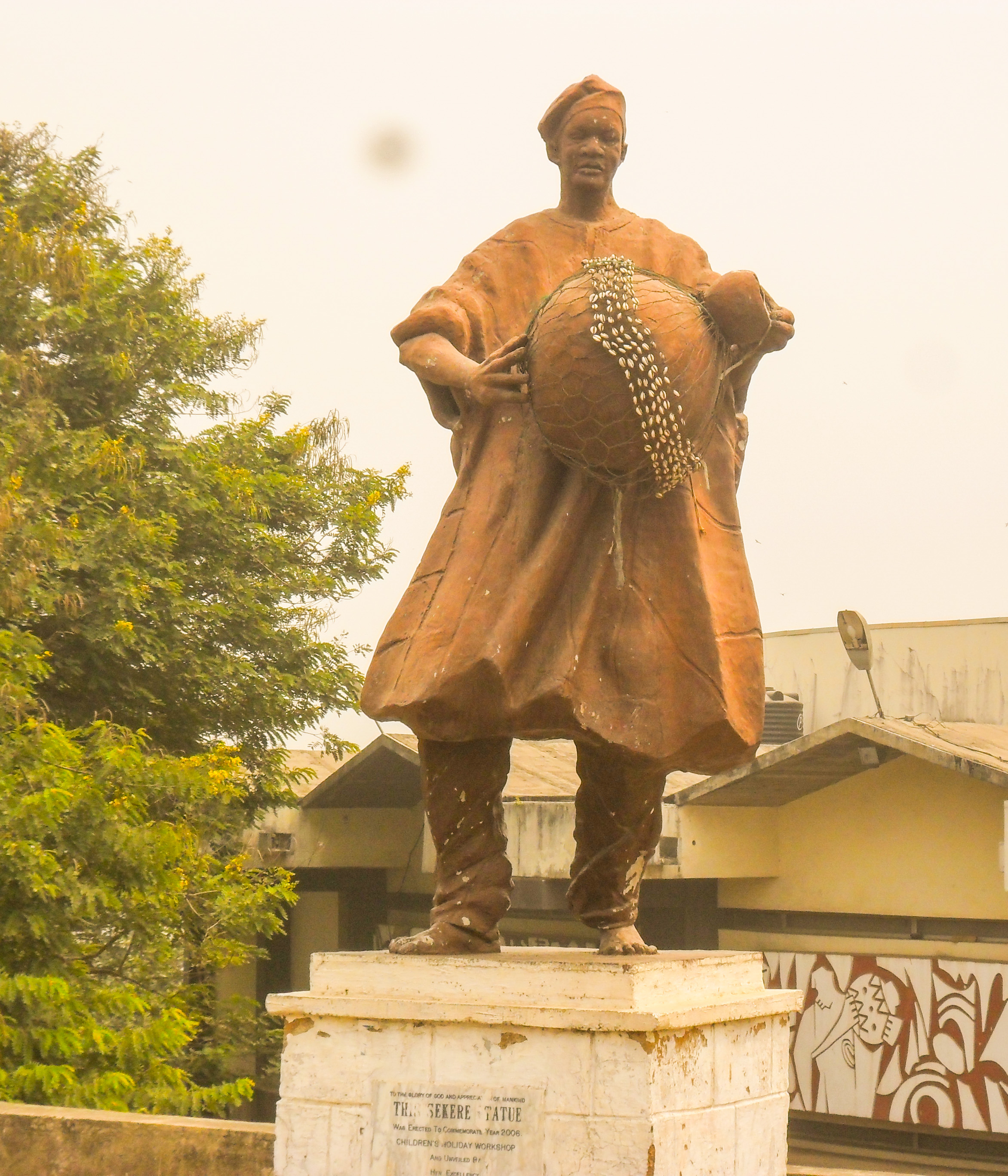 A Statue of a man holding sekere, a musical instrument common among the Yorubas of southwest Nigeria This is an image from Nigeria